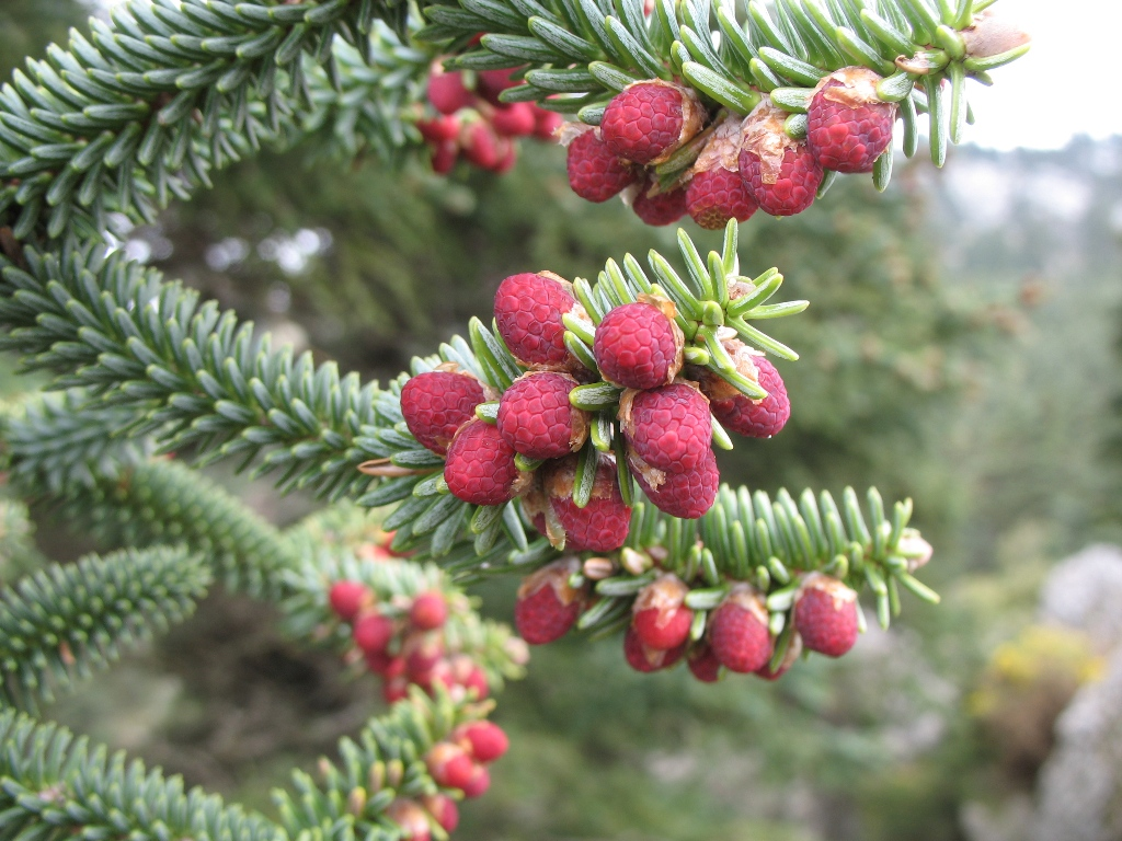 Abies pinsapo foliage and pollen cones, Yunquera, Sierra de las Nieves, Spain